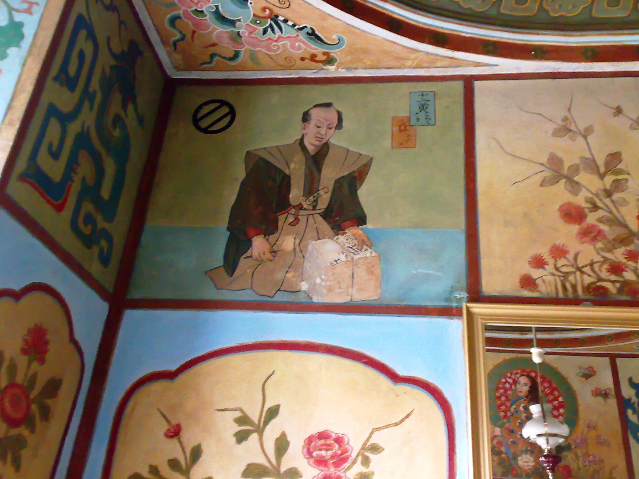 Japanese room in Samchyky palace, Ukraine.